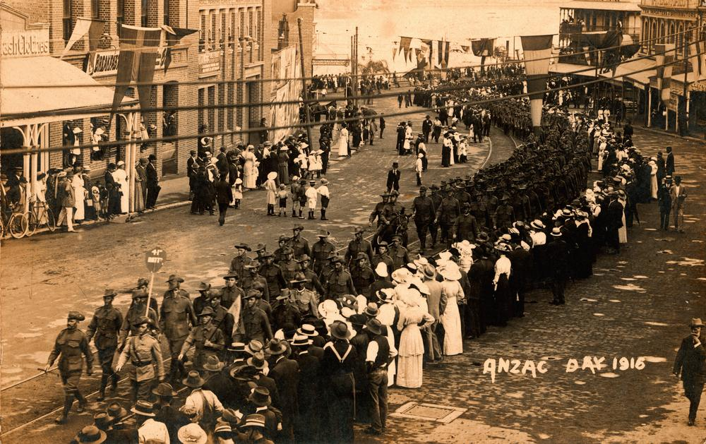 Anzac Day procession through the streets of Brisbane, 1916. Men, women and children line the streets to watch the procession of the 41st Battalion through Brisbane on Anzac Day, 1916. The street is decorated with flags, strung between buildings on either side of the road. Copied from a postcard, the back of which reads: Bells Paddock, 41st Battalion. A Company. My Dear Brother, Just a post card to let you know I am well. We are leaving on the eighth of the month for lord only knows where. We have not had any drill yet, so it will be a few months before we see the firing line. Charley Williams is down here in camp. I will send a photo of myself before I go. This postcard of our battalion leading on Anzac Day, six thousand marching. There is a lot of Mackay lads in the hut. I ...(?) will now conclude, hoping this will find you well, as it leaves me. I remain, your affectionate brother, Earl.